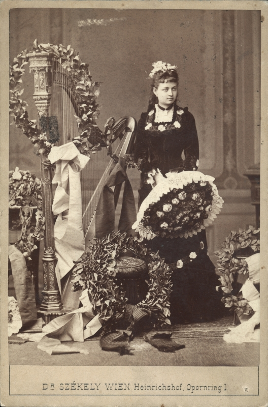 Therese Zamara (1856–1927)